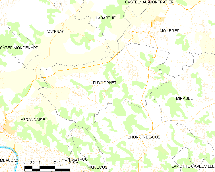 Map of French municipality Puycornet